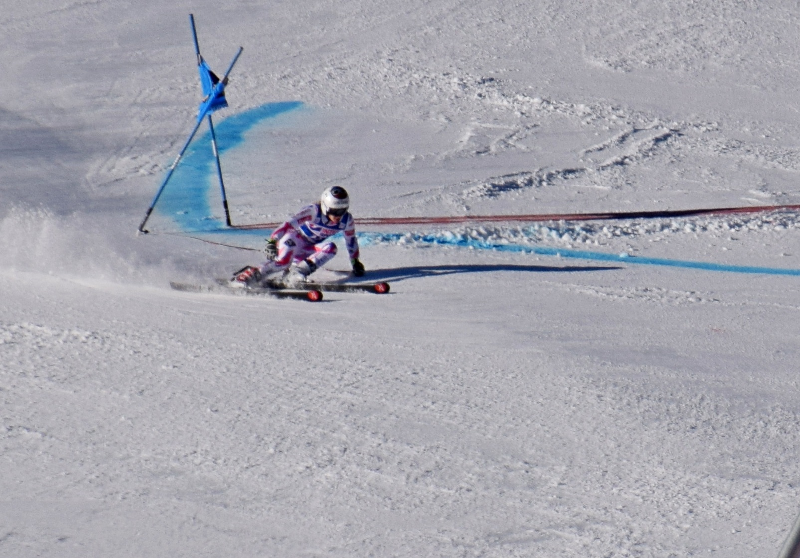 Adeline Baud Mugnier, 1 run of Giant Slalom, Alpine Skiing World Cup of Women in Courchevel, 20 december 2015